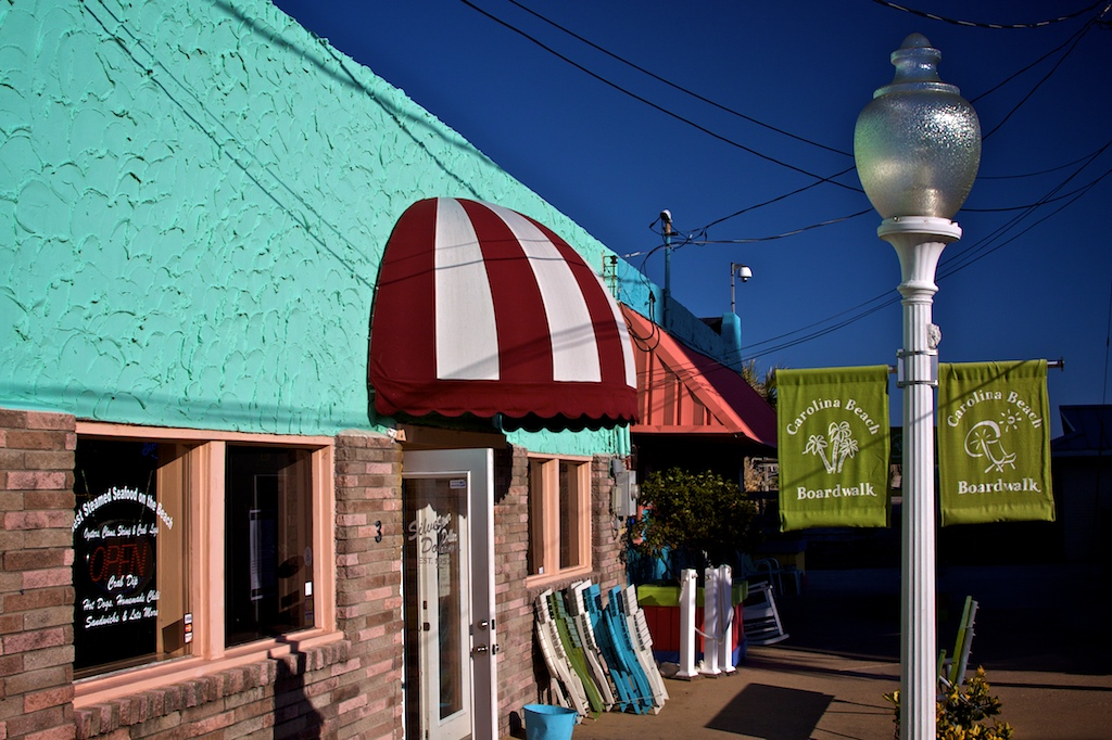 photograph of a business front on the Carolina Beach Boardwalk during the off season.